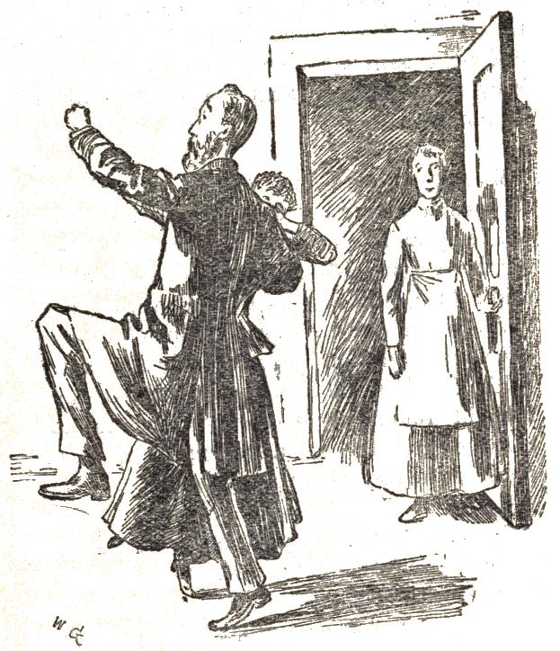 jpg of image on print page 51 of File:Diary of a Nobody.djvu